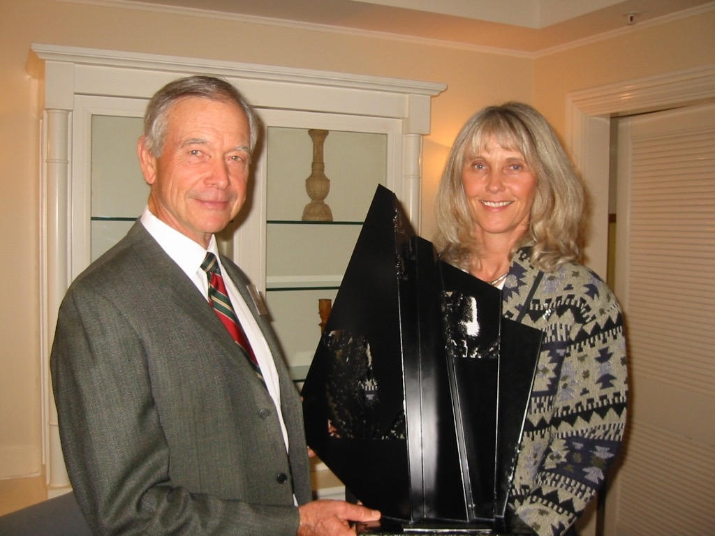 Banksia Award